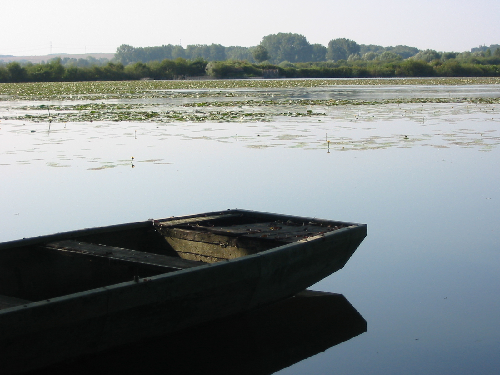 Lakes along the Somme